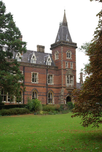 Brownsover Hall Hotel Designed by the high priest of Victorian Gothic, George Gilbert Scott, this extraordinary pile now functions as a hotel - set in attractive grounds and surprisingly secluded given its proximity to major roads and built-up areas. It is reputedly haunted.